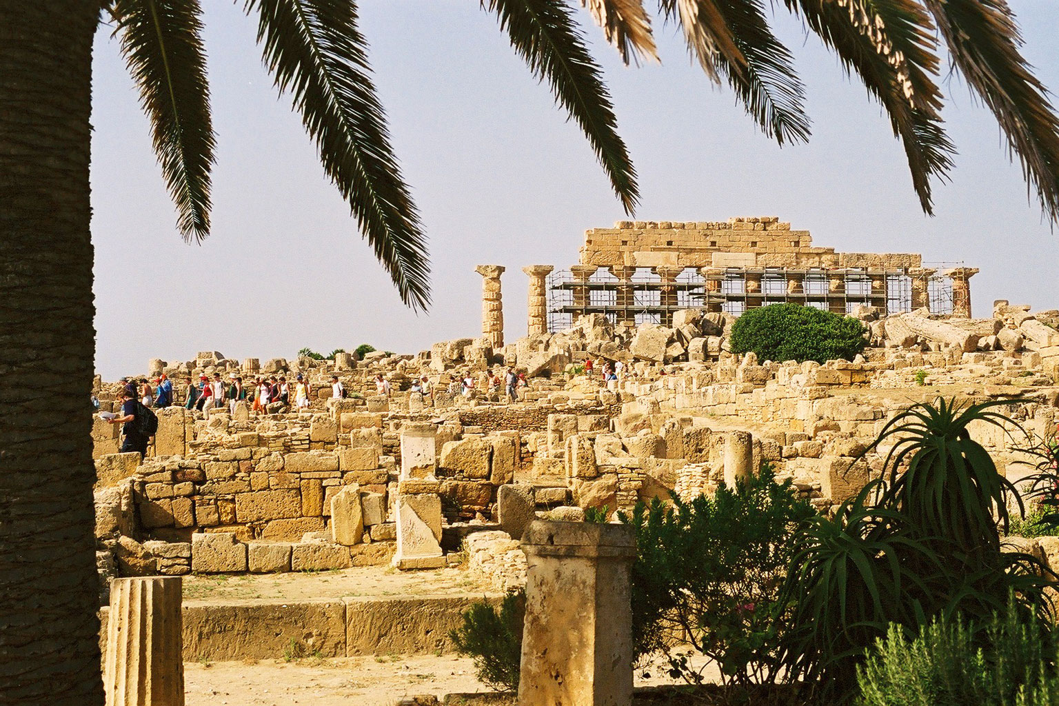 Selinunte (Sicily): The acropolis seen from the south